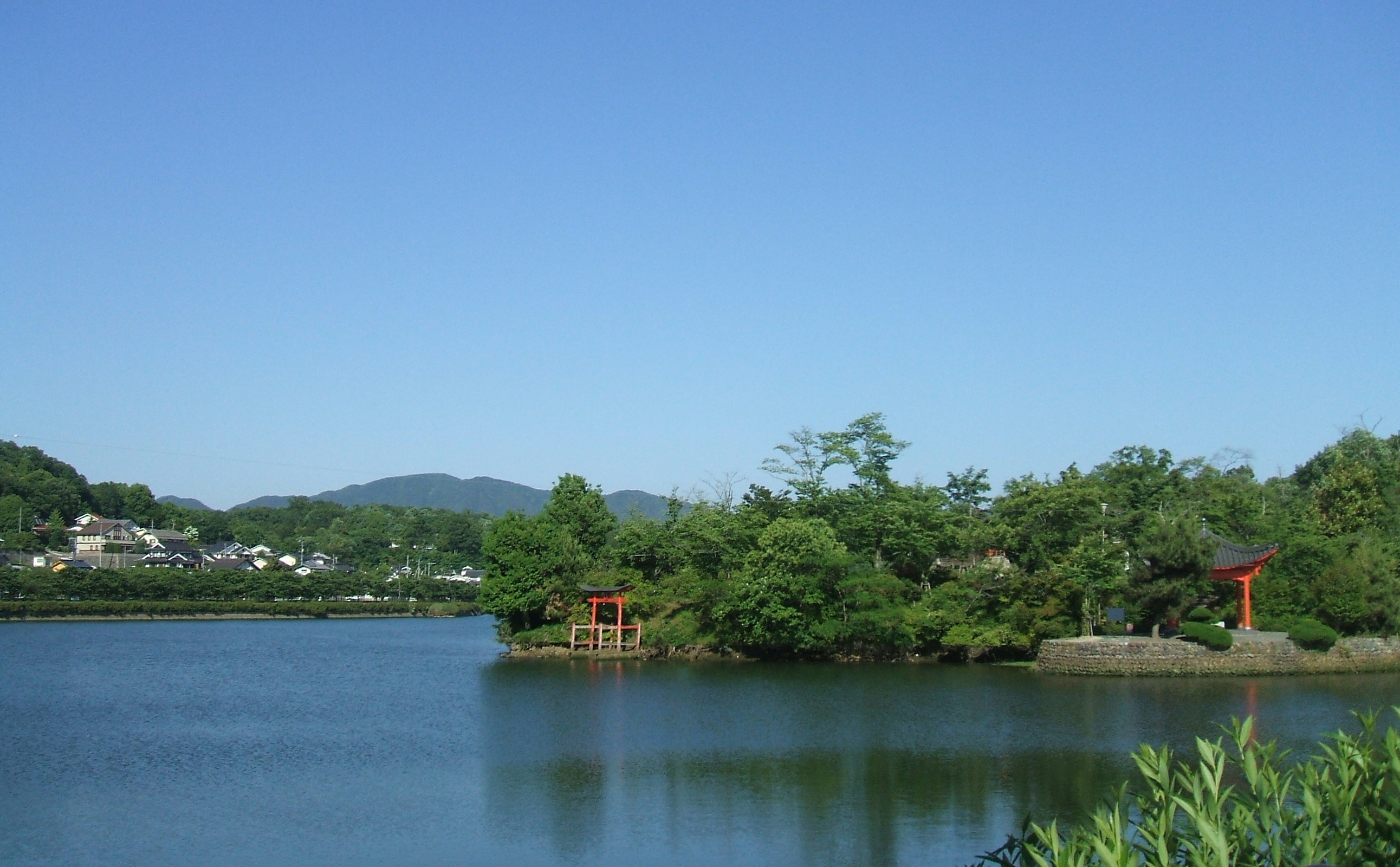 Shobara Ueno Park